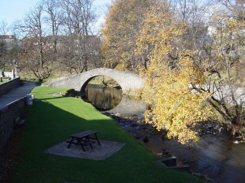 Auld Brig, Old Bridge in Keith, Banffshire, Scotland